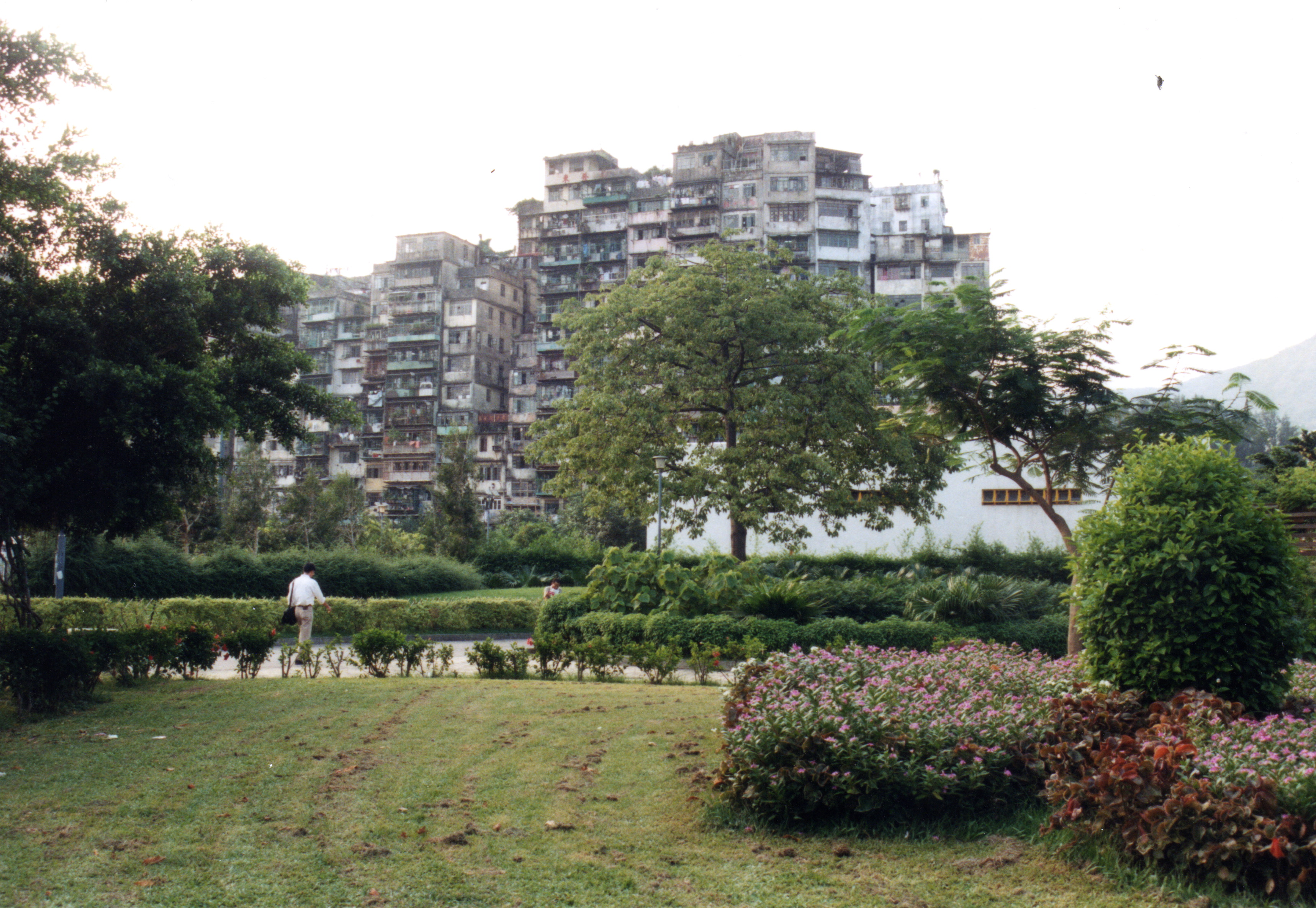 Kowloon Walled City - Hong Kong - this was shortly before they demolished the place and replaced it with quite a nice park